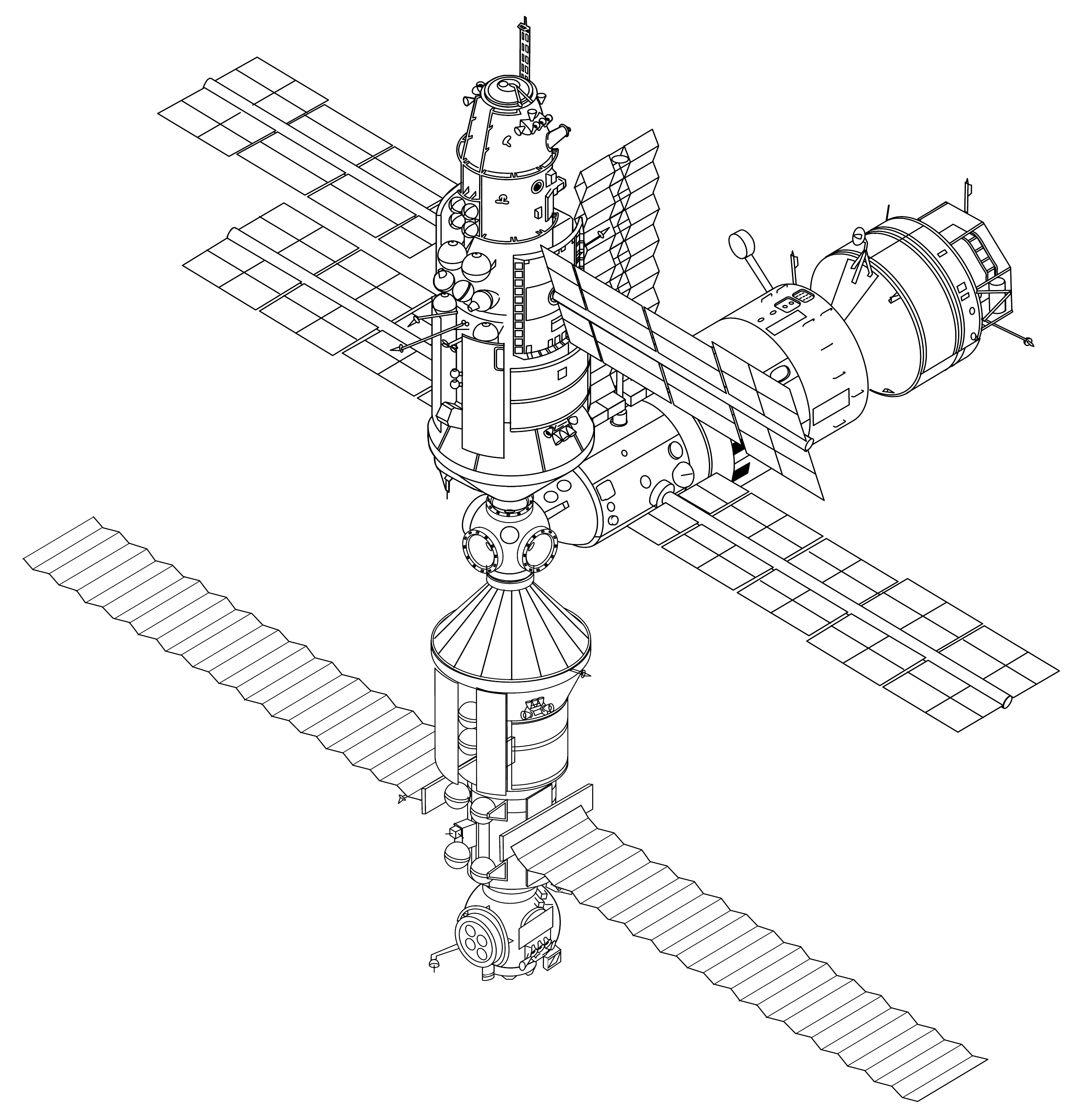 Mir base block (center), Kvant (right), Kvant 2 (top), and Kristall (bottom) (1990). Note the EVA mooring post for YMK tests near Kvant 2’s EVA airlock hatch. It was added during a January 26, 1990 EVA. Soyuz-TM and Progress vehicles are omitted for clarity.